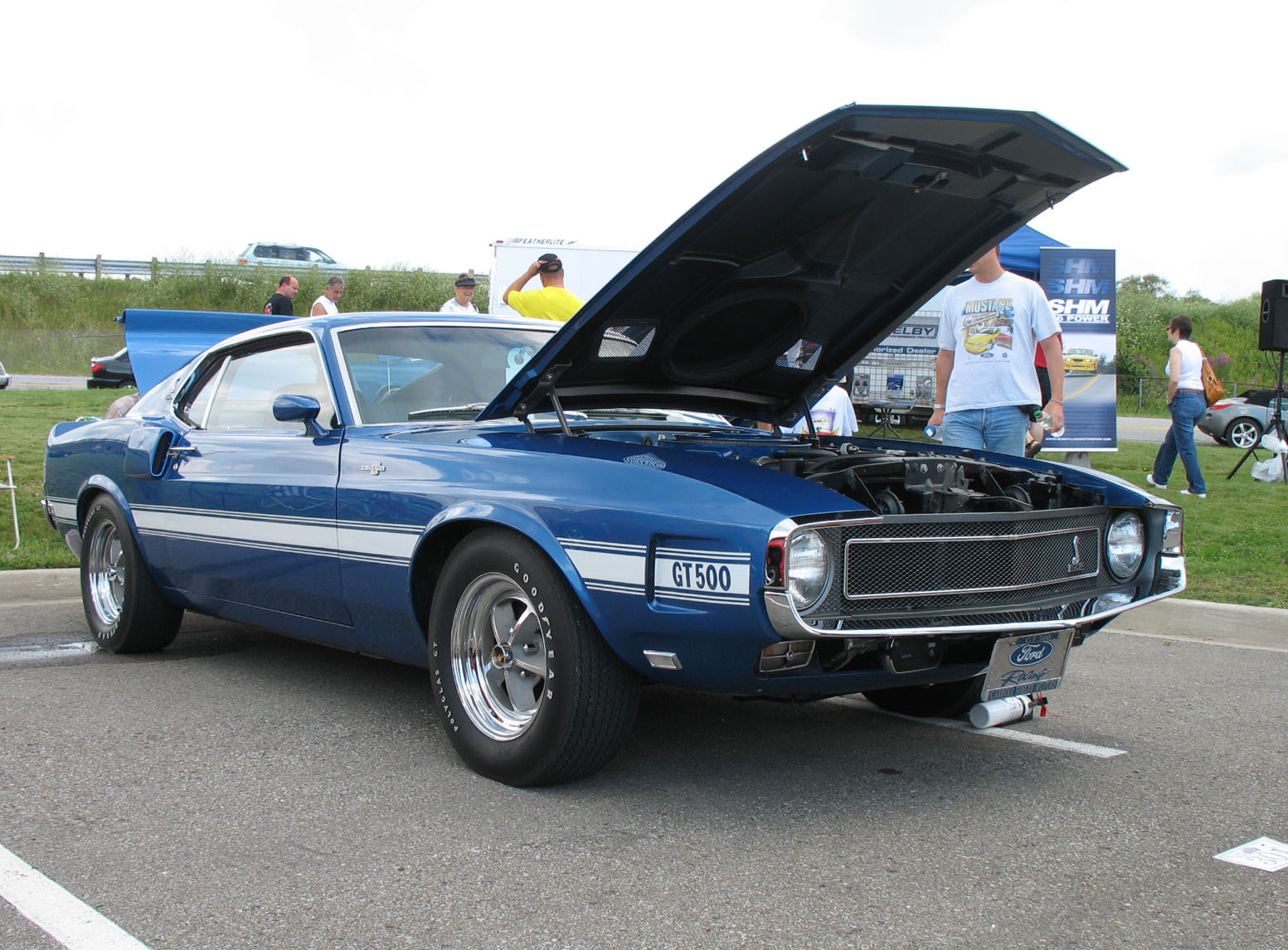 1969 Shelby GT500